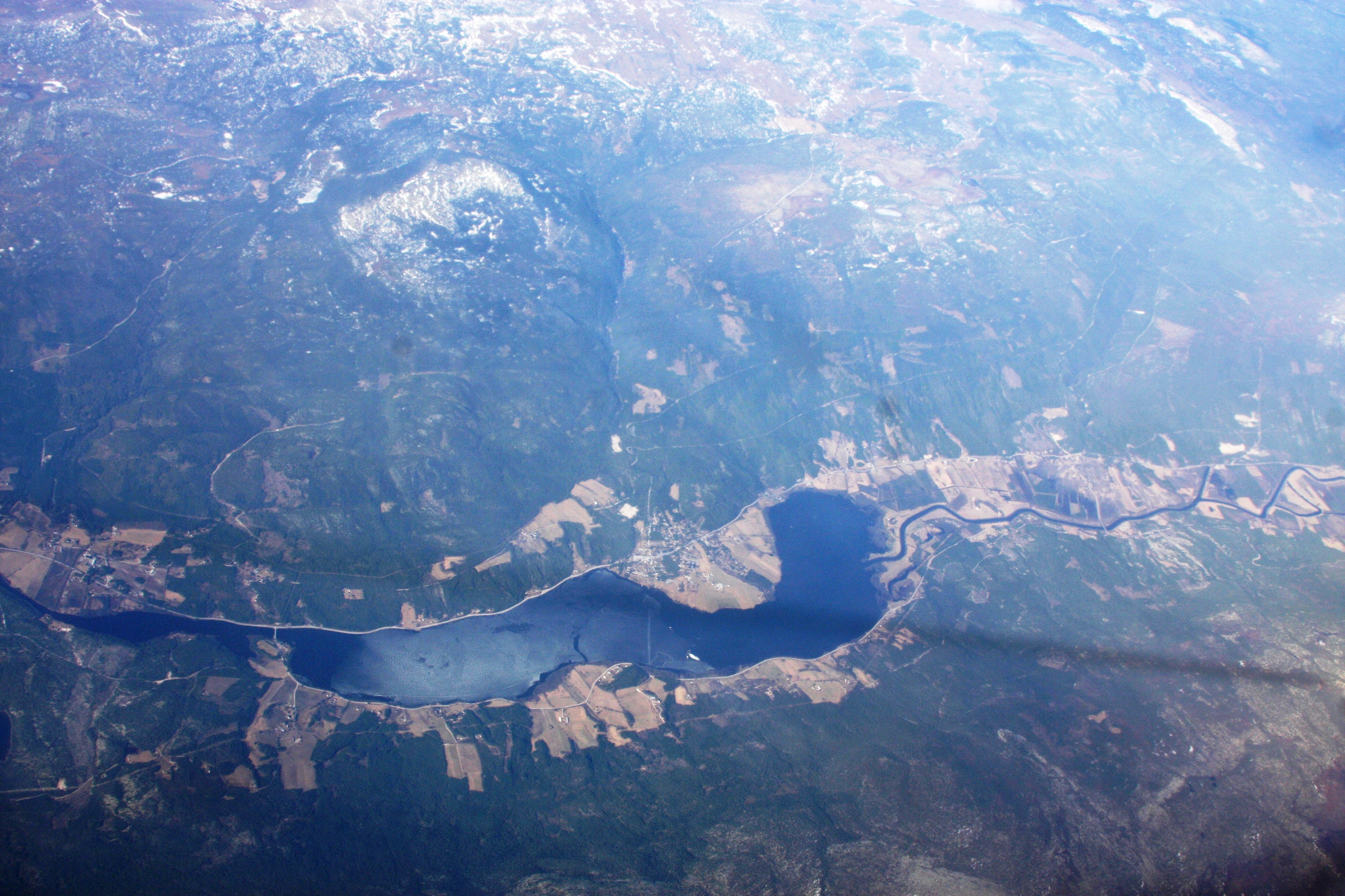 Lomnes Lake, in the Rena river, municipality of Rendalen, Norway.